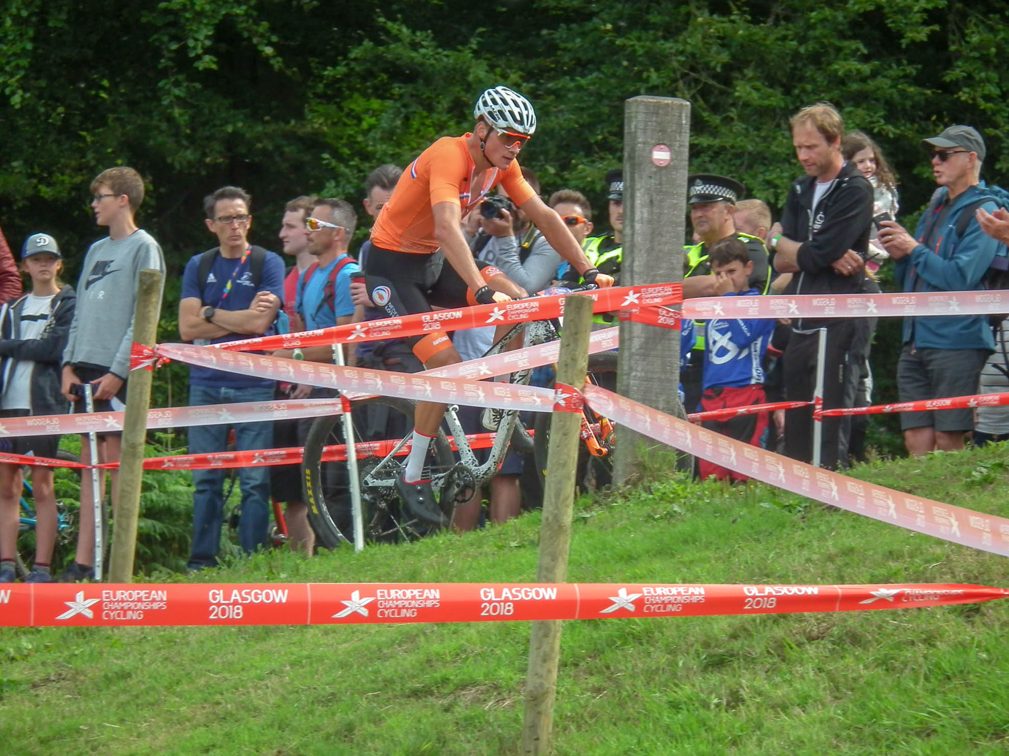 2018 European Mountain Bike Championships